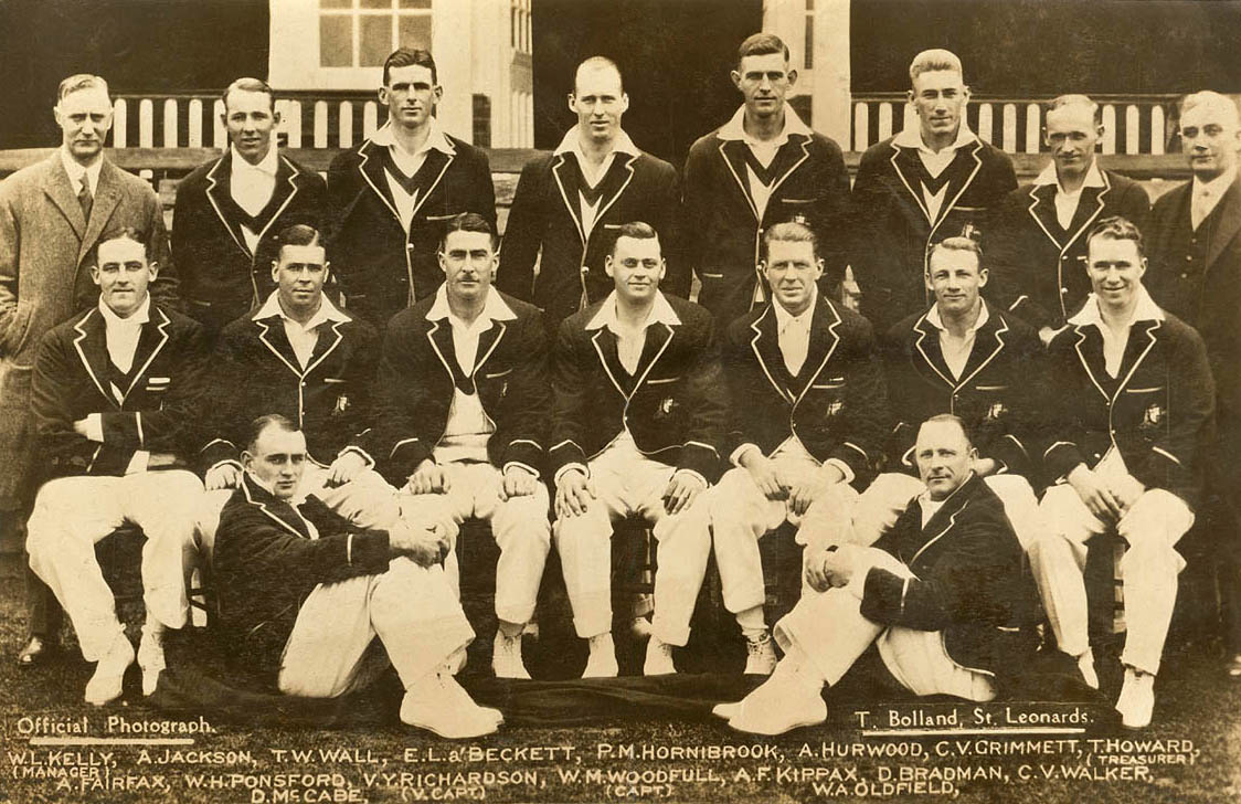 Official photo of 1930 Australian cricket team that toured England. Back: Kelly (manager), Jackson, Wall, a'Beckett, Hornibrook, Hurwood, Grimmett, Howard (treasurer) Centre: Fairfax, Ponsford, Richardson, Woodfull (captain), Kippax, Bradman, Walker. Front: McCabe, Oldfield